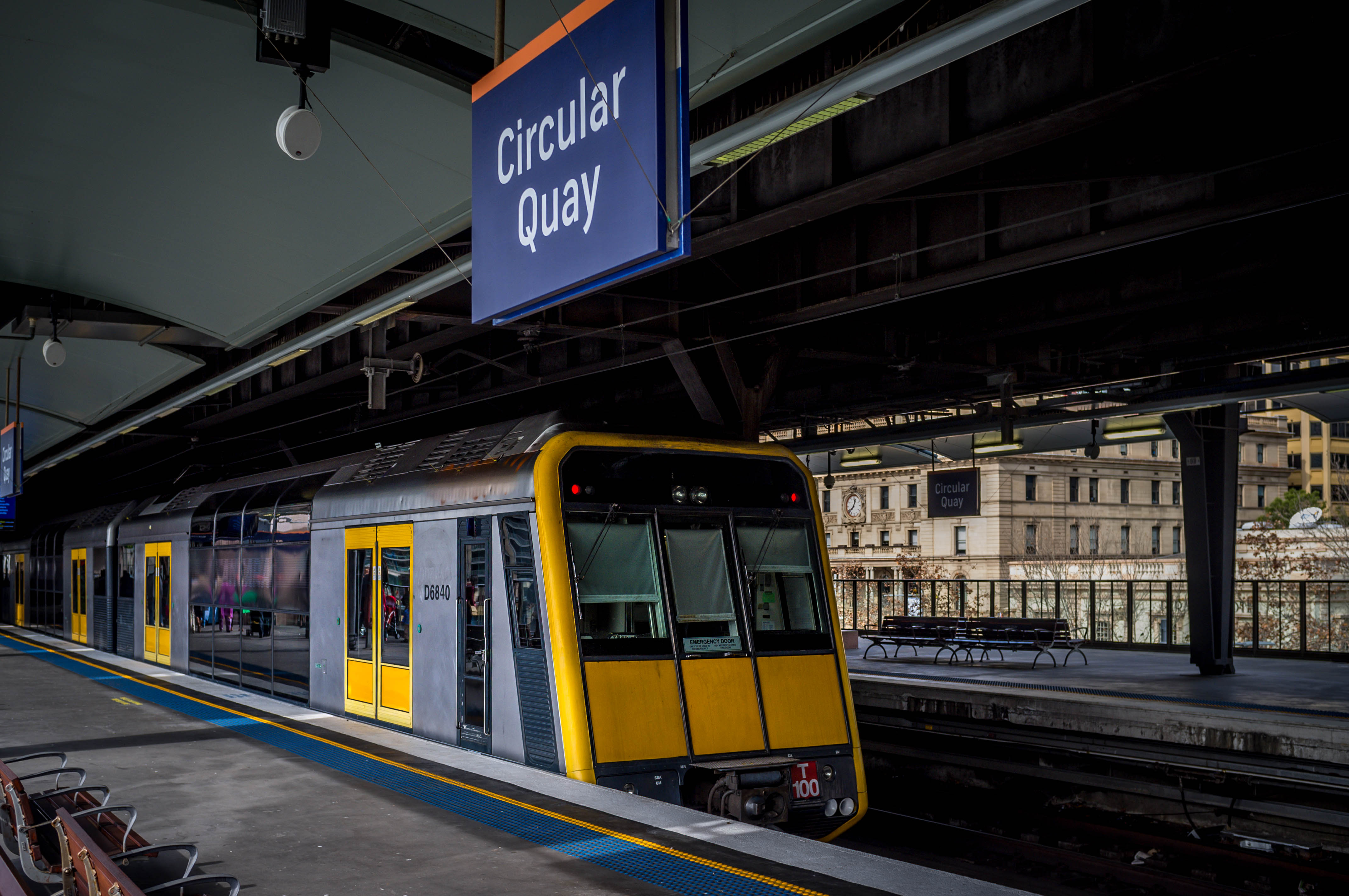 Tangara T Car Set at Circular Quay Station